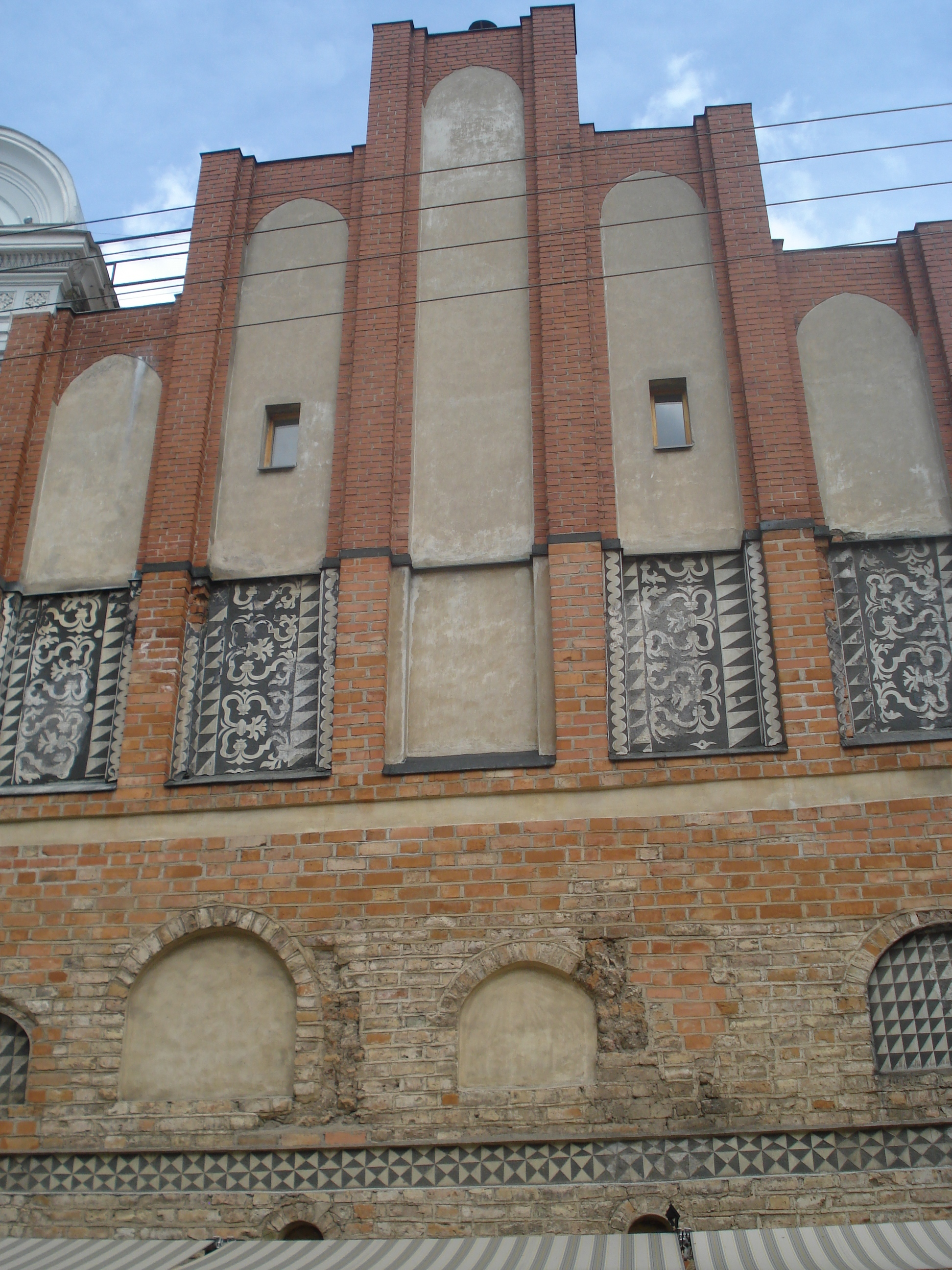 Gothic house in Vilnius (14th-16th centuries), Aušros Vartų g. 8. Restaurant "Medininkai"